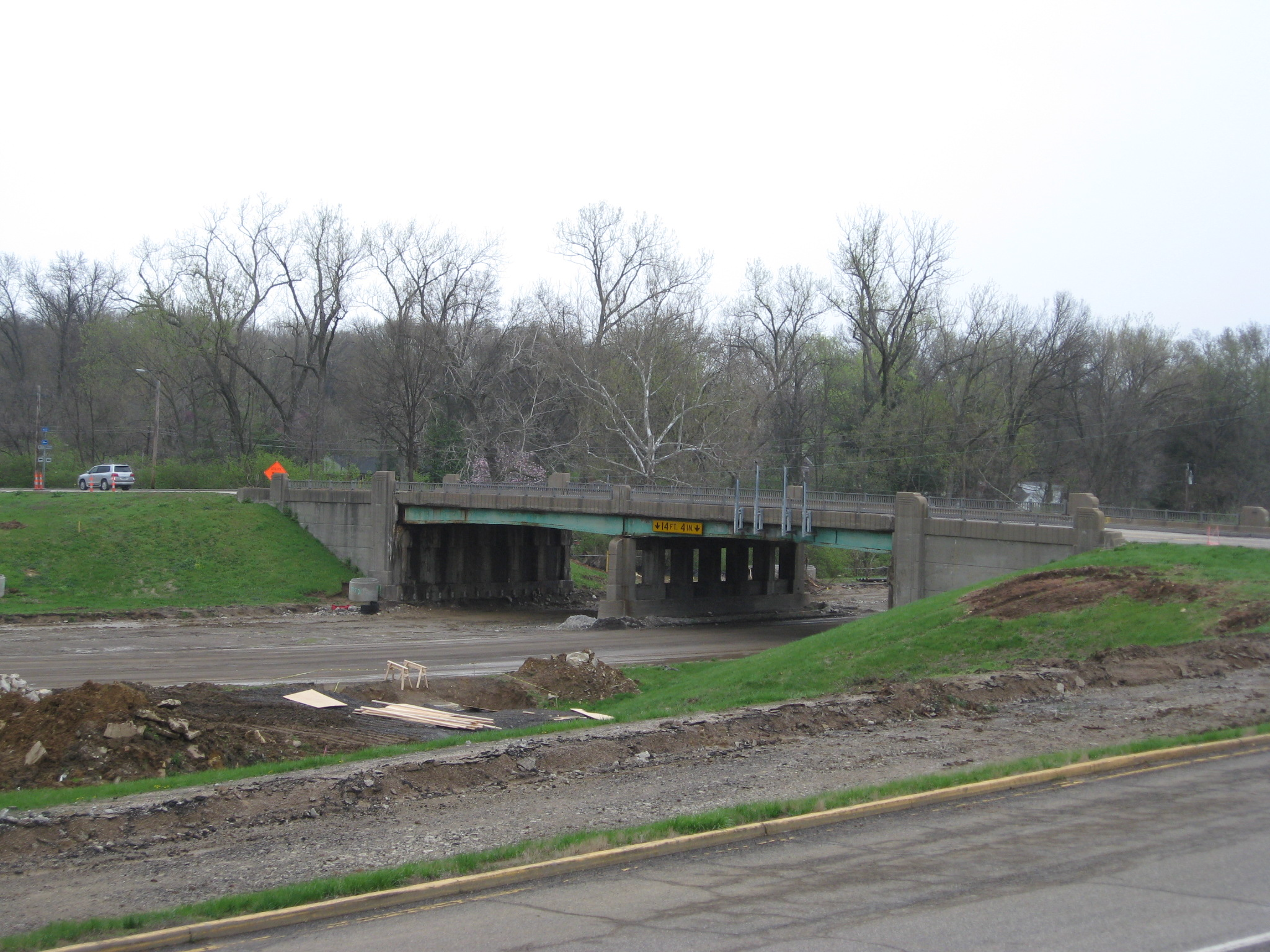 I-64/U.S. 40 at the site of the Spoede Road interchange (Exit 27) in Frontenac, Missouri. The highway was closed and in the process of being completely rebuilt at the time this picture was taken. (The overpass was demolished in June 2008.)